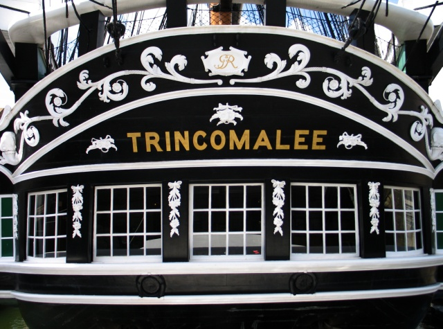 Stern of HMS Trincomalee.